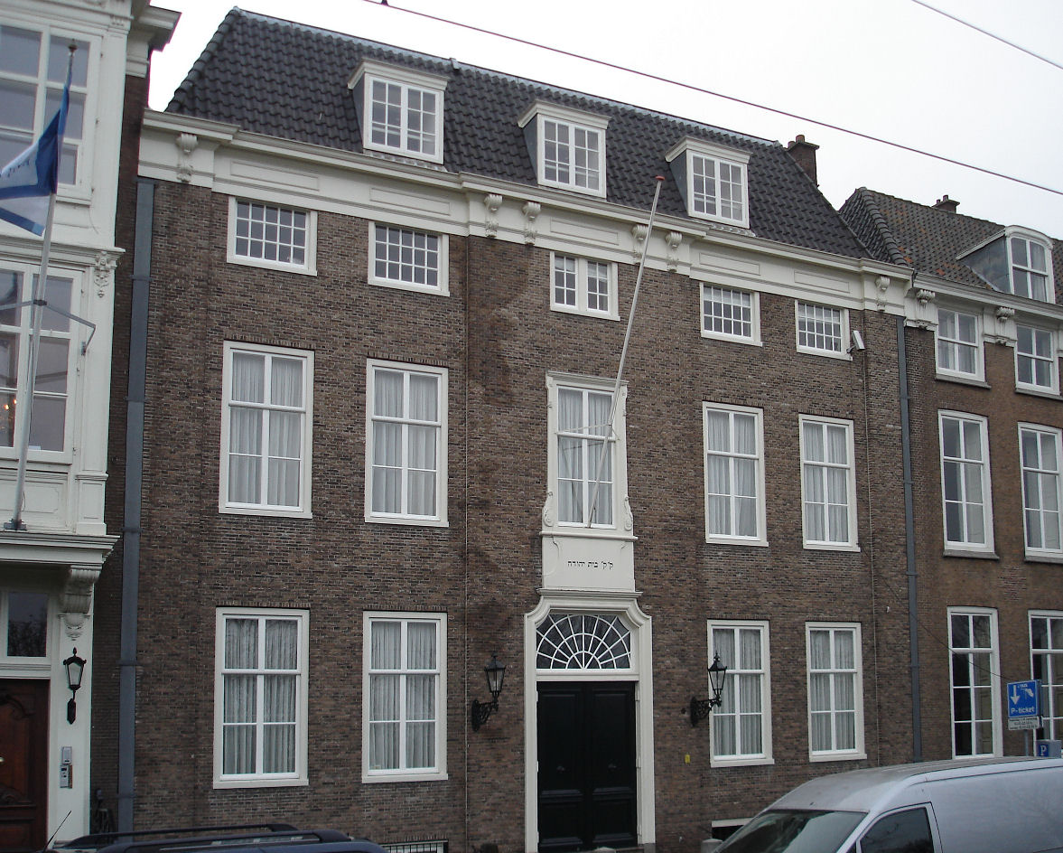 Synagogue of the Jewish Liberal Community in The Hague, Netherlands. Adress: Jan Evertstraat 7, The Hague. The synagogue was build in 1725/1726